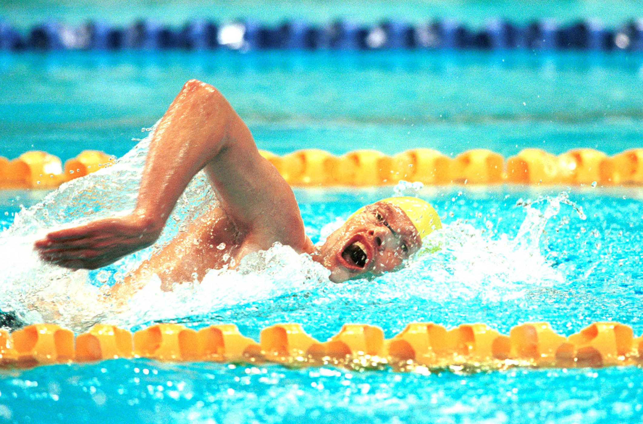 Action shot of Australian swimmer Brett Reid during competition at the 2000 Sydney Paralympic Games